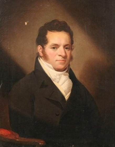 Nathaniel Allen, New York Congressman.